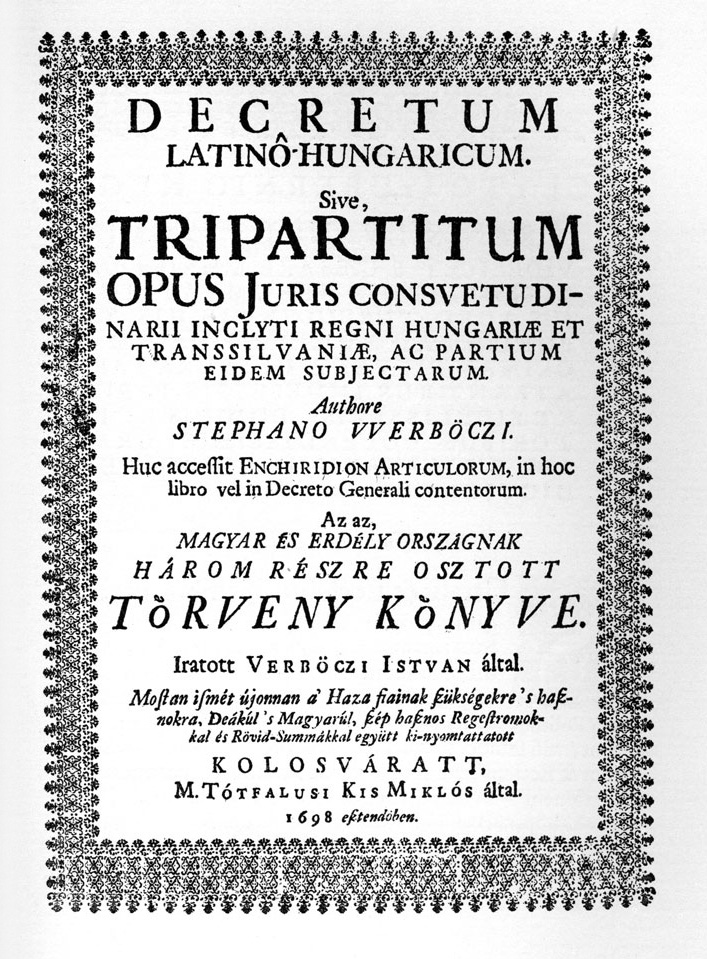 First page of Tripartitum